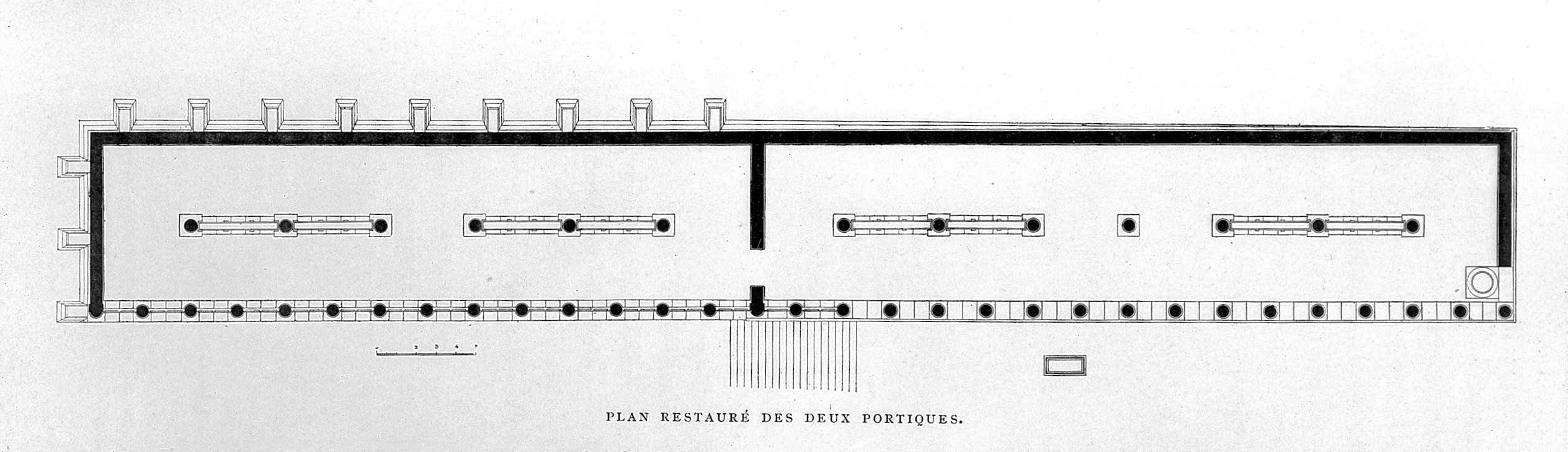 Reconstructions of the sacred precints at Epidaurus: plan of the porticoes of the abaton (pilgrims' dormitory) General Collections Keywords: epidaurus; Alphonse Defrasse